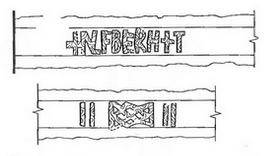 drawing of the blade inscription of an Ulfberht sword found in Polotsk, Belarus